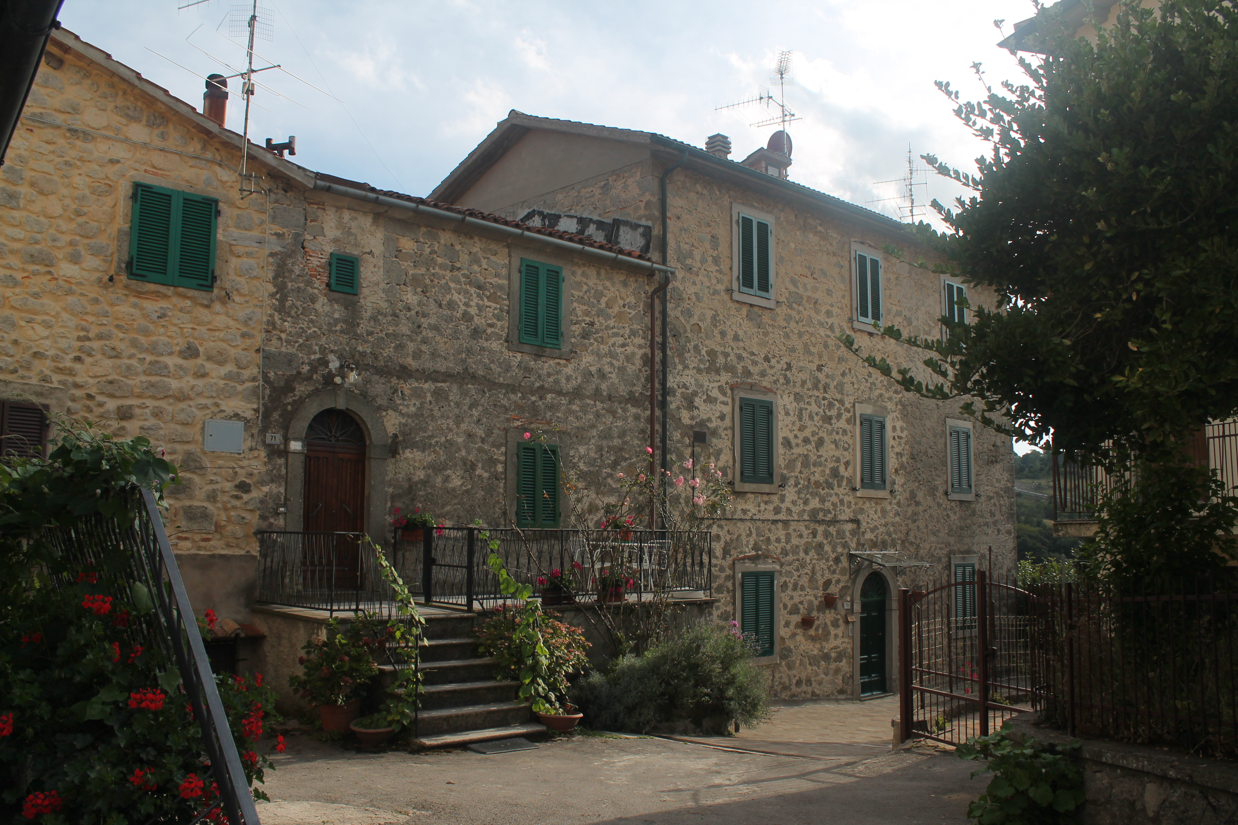 The old centre of Bagnore, Grosseto, Tuscany.